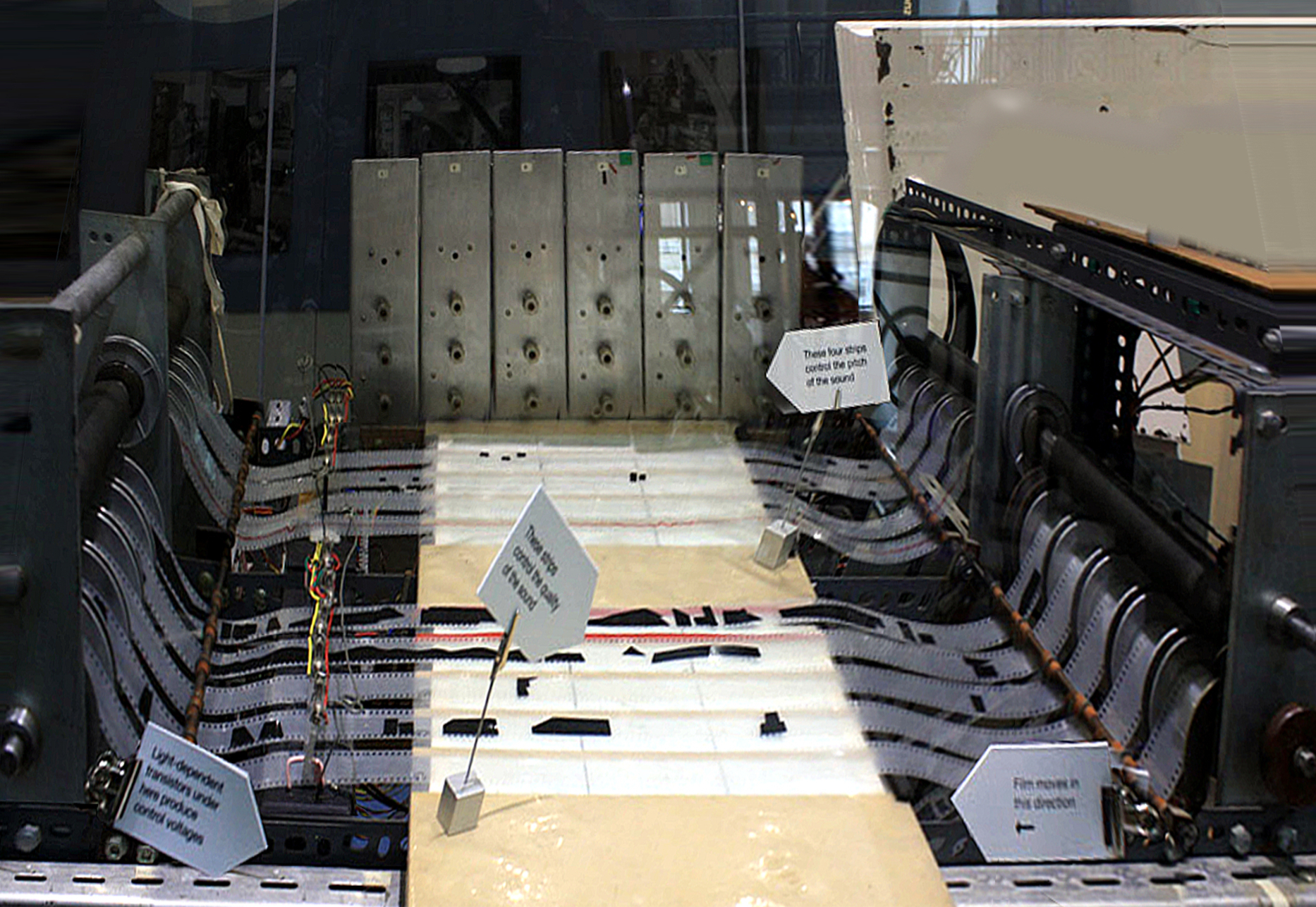 Old school electronica This is what I came to see: the Oramics Machine. Modern synths are rubbish - this is what it's all about. fyi, they were playing some of the music created by this machine. It sounds like the Aphex Twin remix of Zeroes and Ones by Jesus Jones.